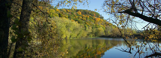 Blue Gill Pond in Effigy Mounds National Monument, Iowa, USA